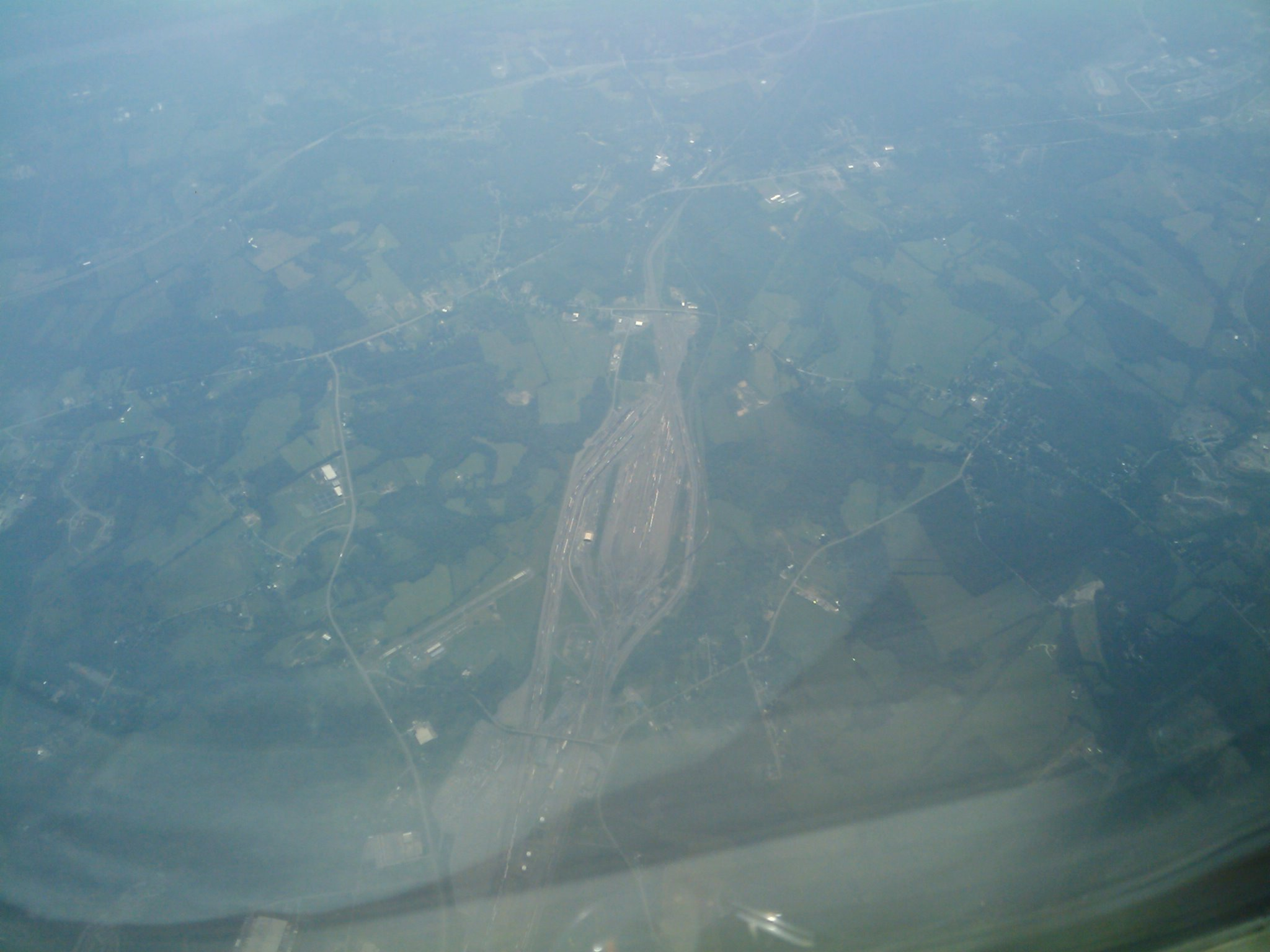 Aerial view of Selkirk Yard in New York State, looking east. South Albany Airport is to the left.